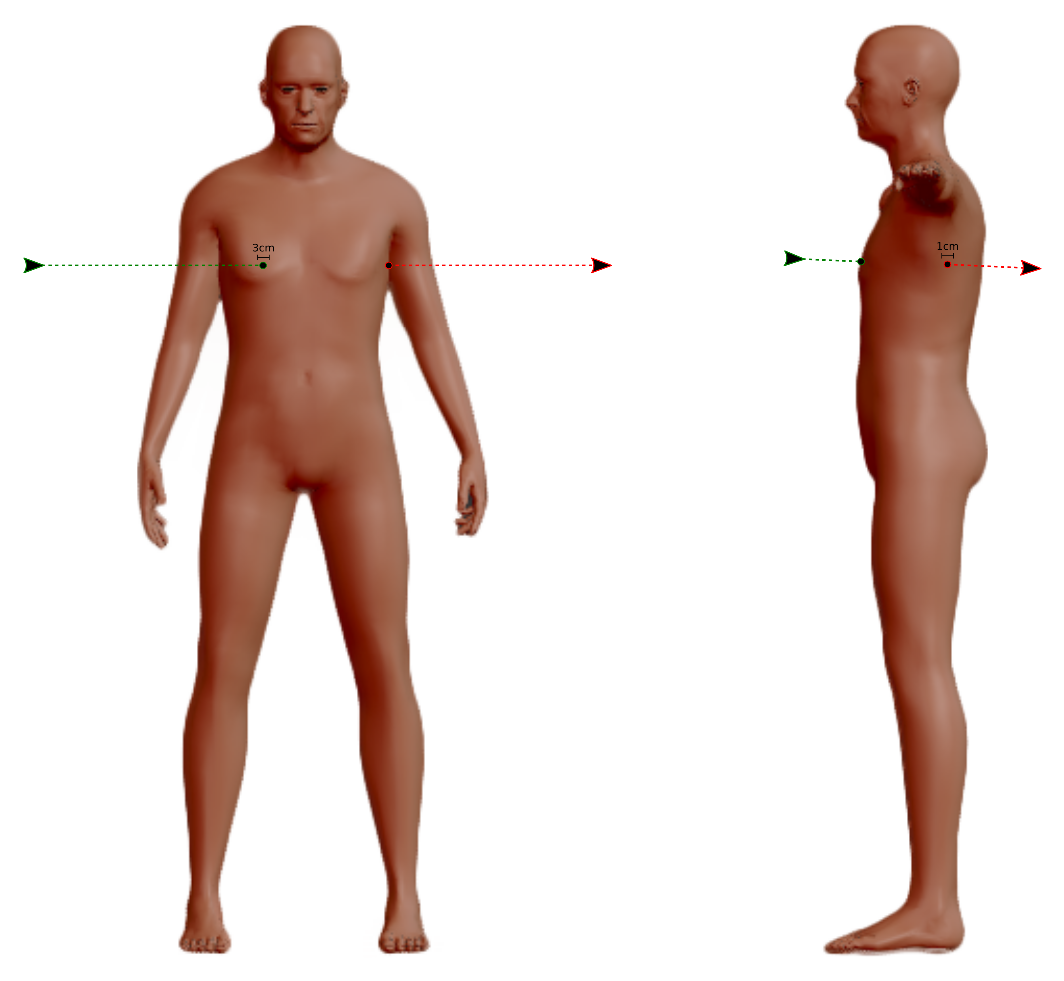 Shot trajectory of Ilia Chavchavadze assassination